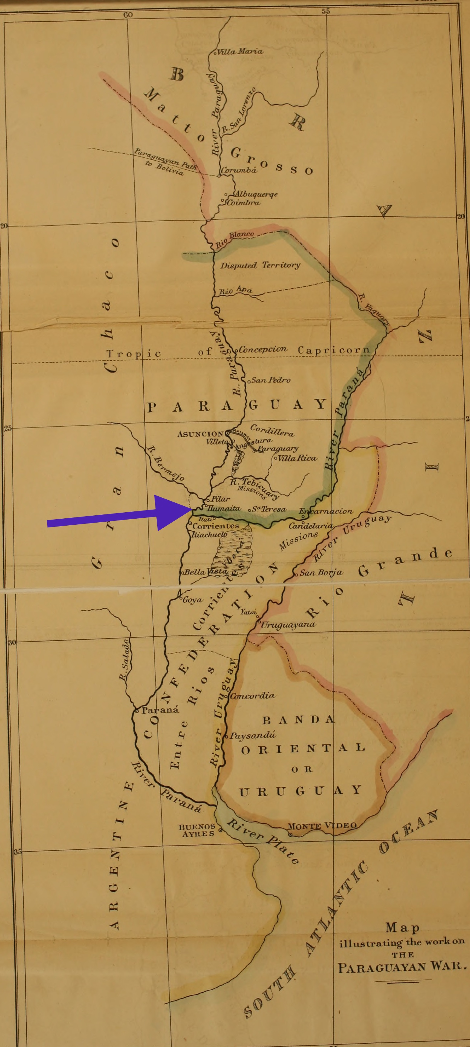 Humaitá: the strategic situation in 1865.